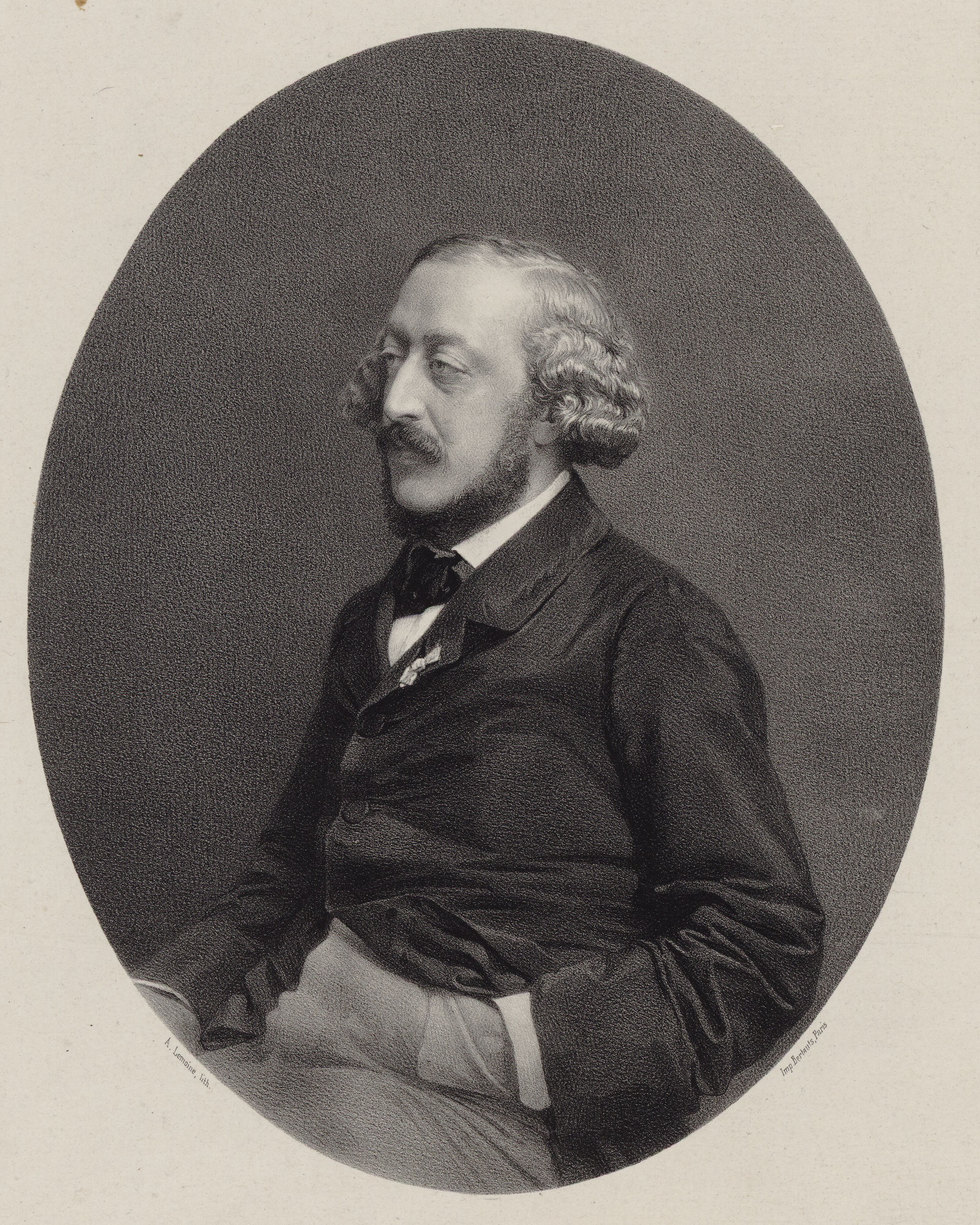 Hungarian pianist and composer Stephen Heller (1813-1888) by Alfred Lemoine (1824-1881).